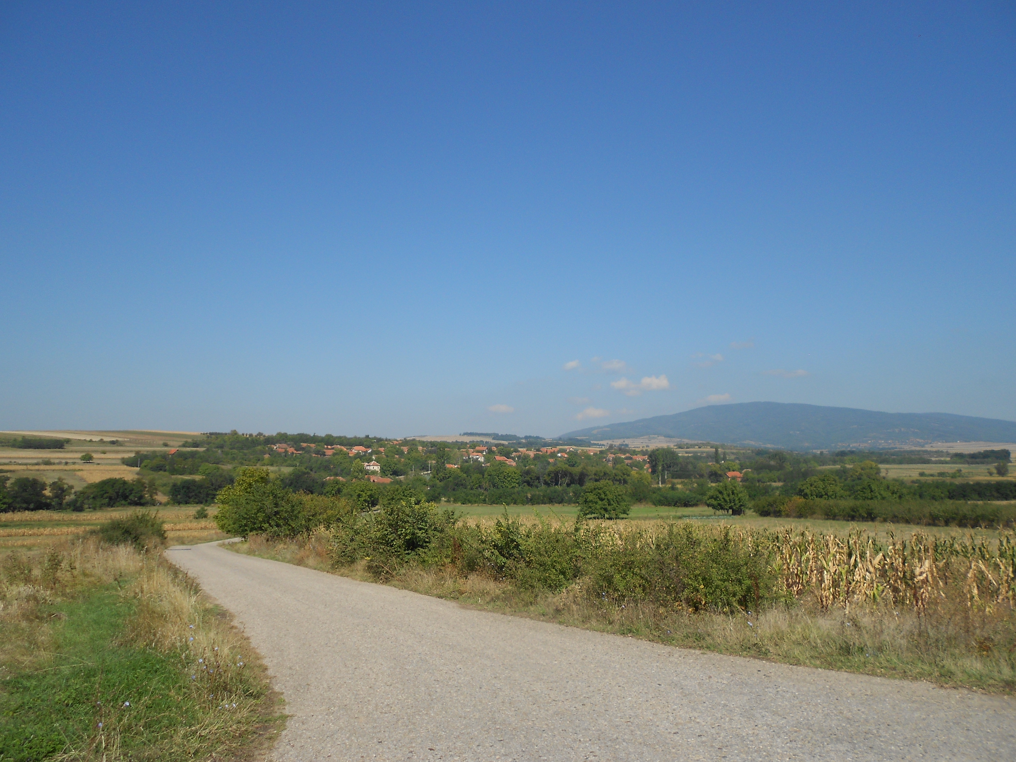 Bradarac (Aleksinac)